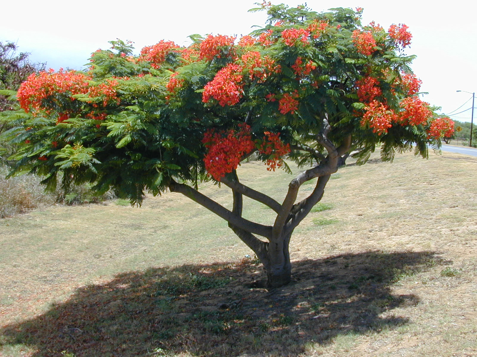 Delonix regia (habit). Location: Maui, Kahului